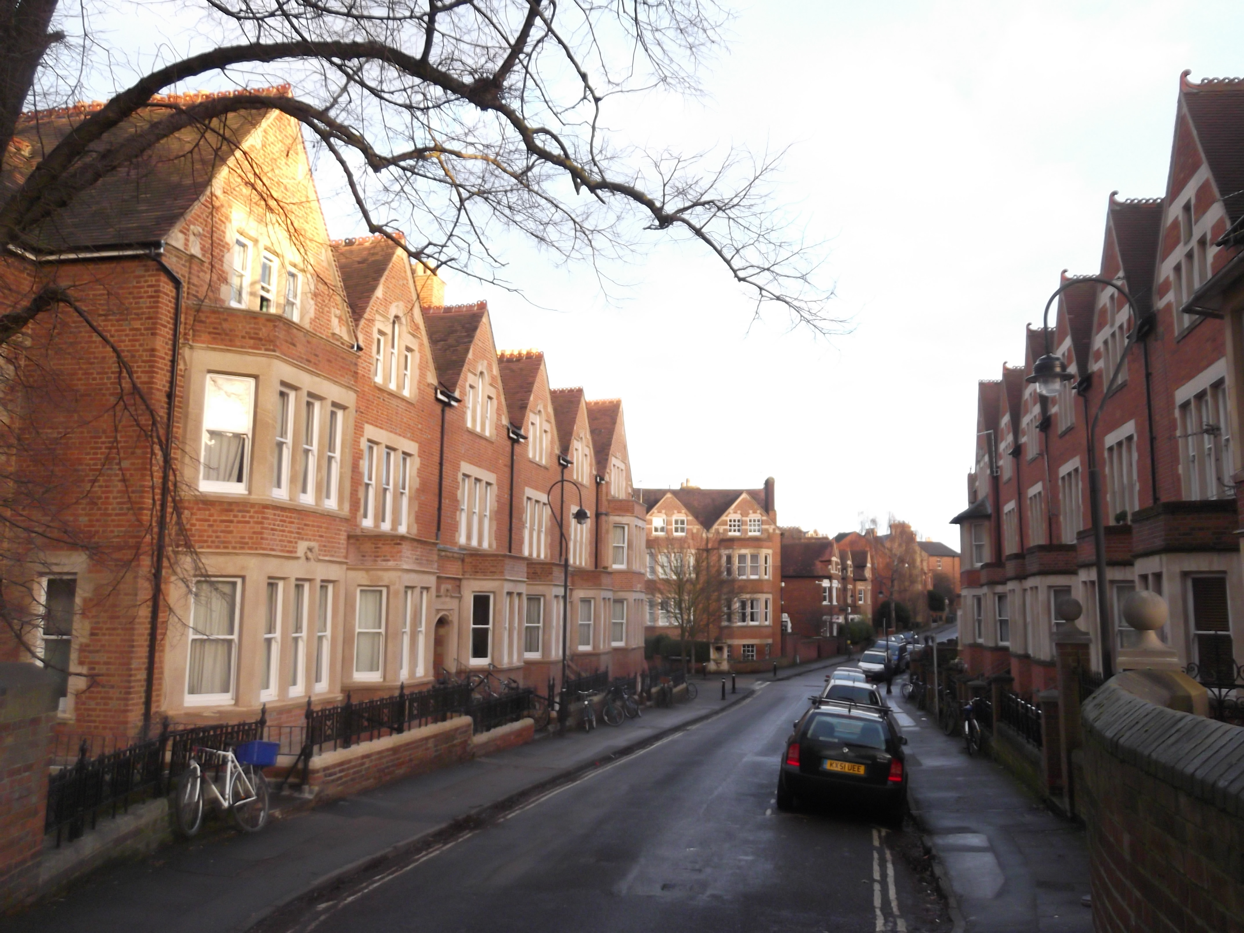 Looking west along Walton Well Road in Oxford, England.